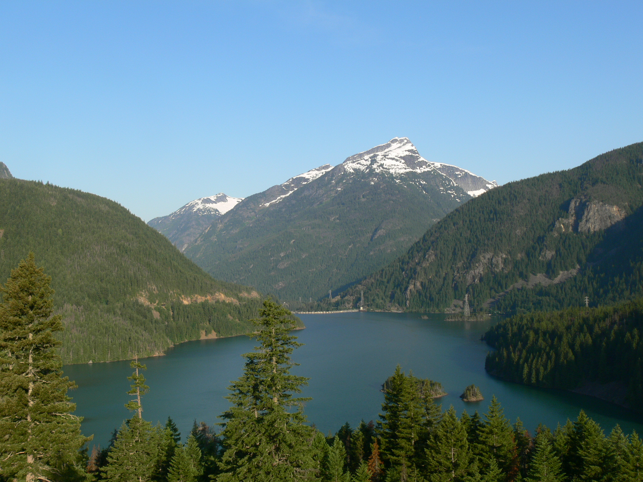 This is a photo of Diablo Lake and Mount Davis, taken from Highway 20.